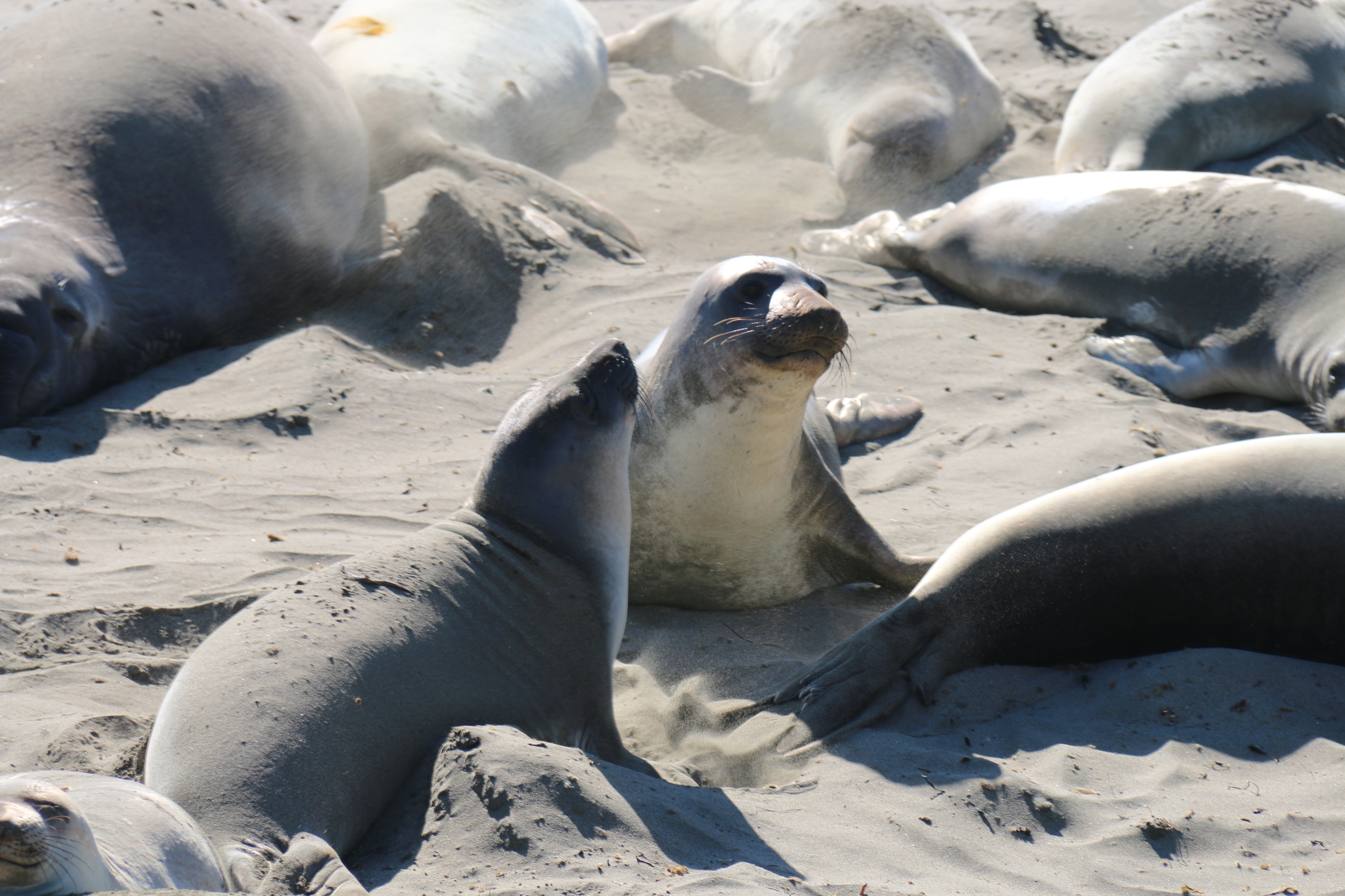 Elephant seals along coast in San Luis Obispo County. Photo by Ashley Spratt/USFWS